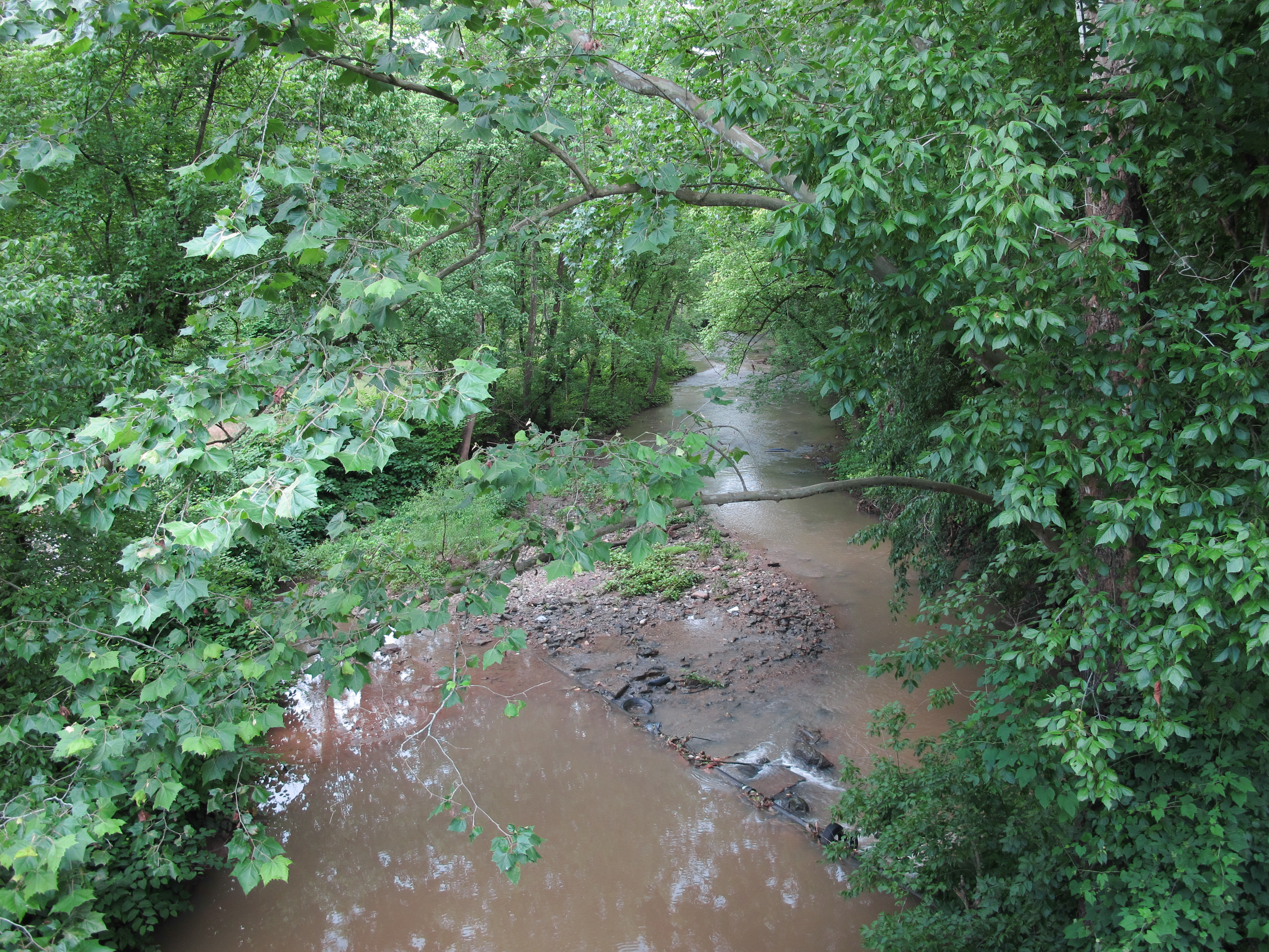 Twomile Creek in Charleston, West Virginia, as viewed downstream from School Street.